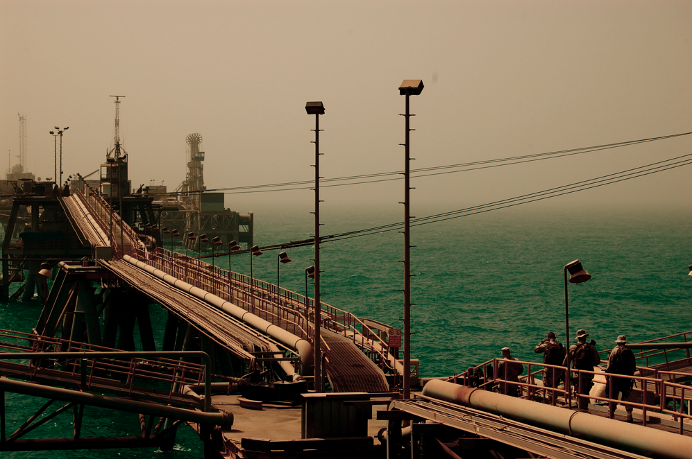 MESD 823 Personnel aboard ABOT